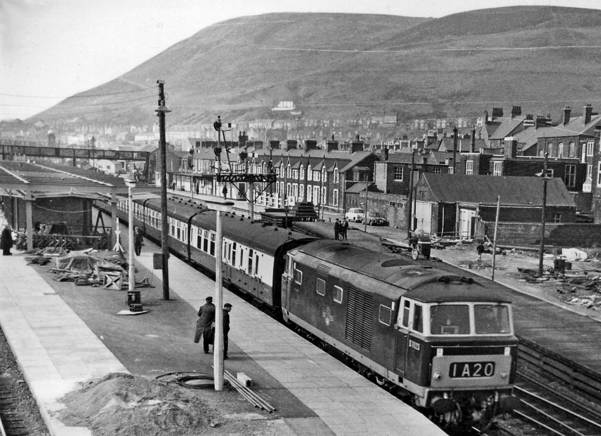 Port Talbot Station, and Down 'Pembroke Coast Express' with a Diesel. View SE, towards Bridgend, Cardiff etc.;ex-Great Western South Wales main line. By 1962 many BR(WR) express services employed Diesels: here we have Beyer-Peacock Hymek 1,700 hp Type 3 (later Class 35) B-B Diesel-Hydraulic No. D7023. The express had left Pembroke Dock at 13.05, was not stopping here and would reach Paddington at 19.45. The station is in progress of rebuilding. Behind is Mynydd Dinas (258m).